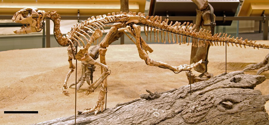 Composite skeleton on display at the Perot Museum of Nature and Science. Scale bar equals 10 cm.